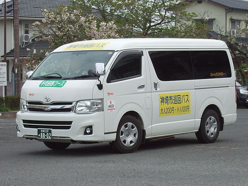 Kanzaki City community bus operated by Joix. Location:Kanzaki Station, Kanzaki City, Saga, Japan.